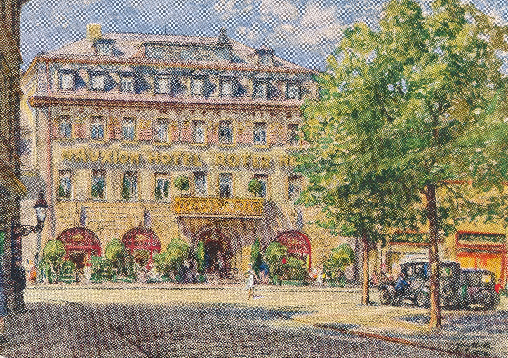 Mauxion hotel Roter Hirsch in Saalfeld/Saale (Germany)